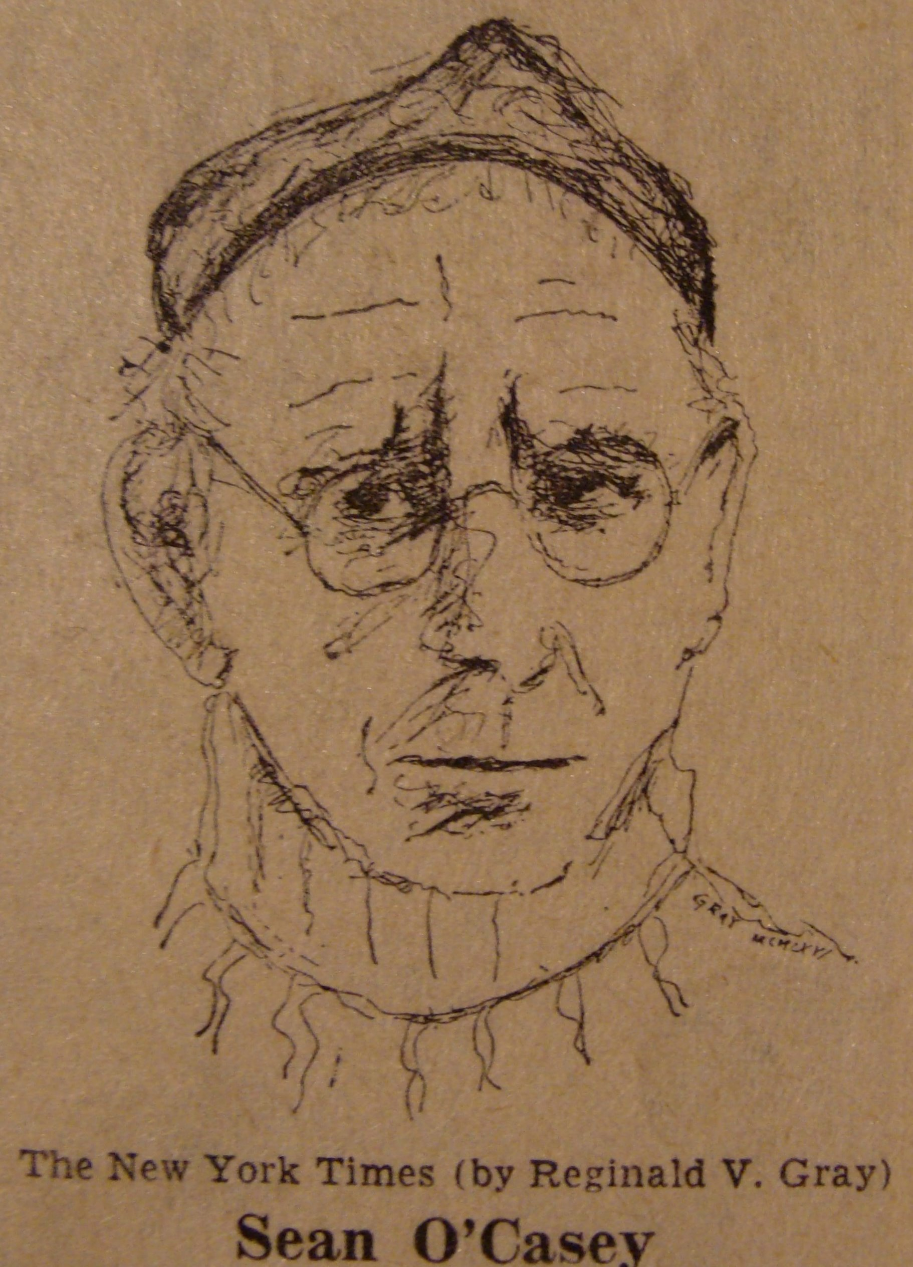 Drawing for The New York Times